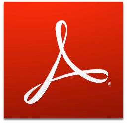 Adobe Reader XI,same like Adobe Reader v9.0 icon but edited.